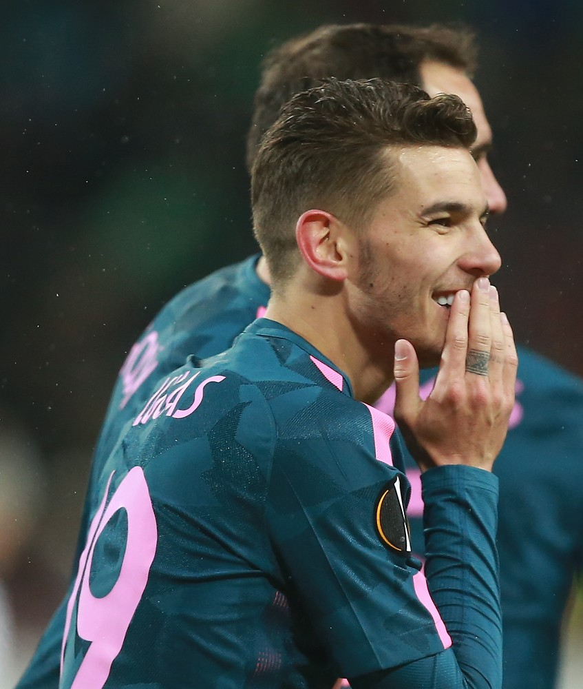 Lucas Hernández